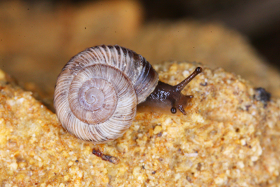 The endemic snail Helicopsis striata austriaca from Lower Austria